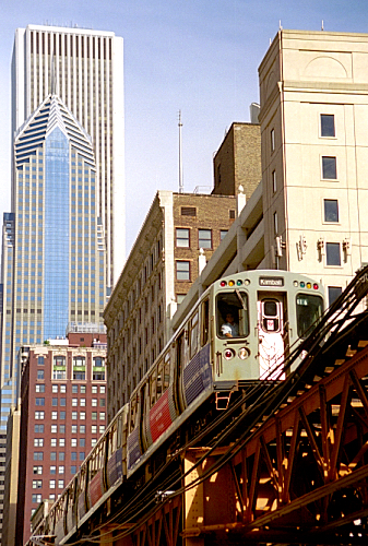 An L train in Downtown Chicago.